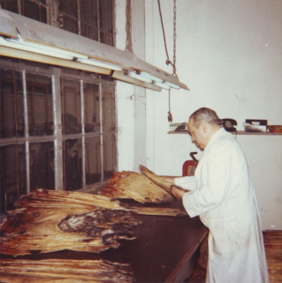 One of the photographs taken around or relating to the fur trade center Niddastrasse, Frankfurt am Main, Germany.